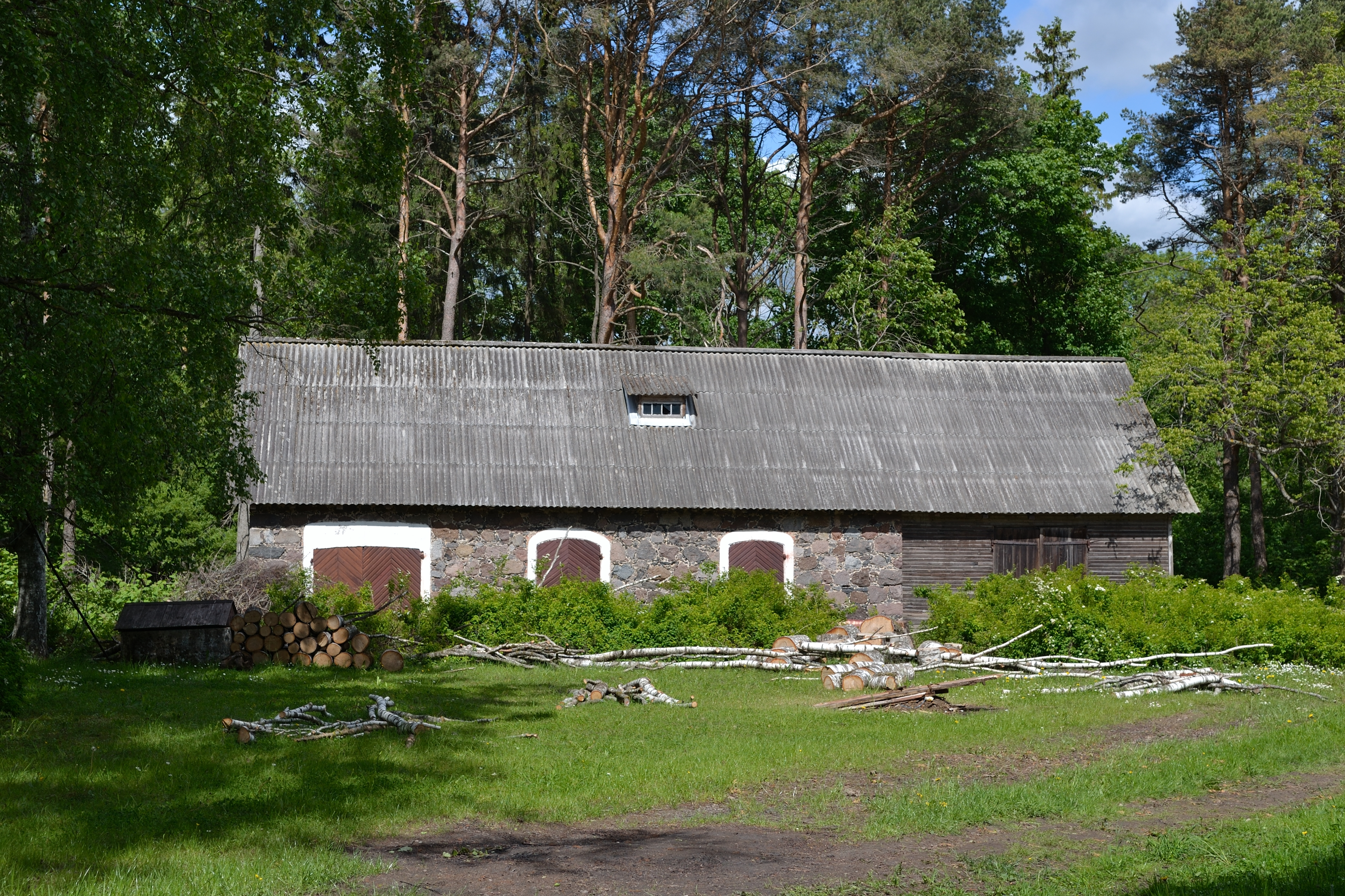 Jõekalda farmstead cattle barn